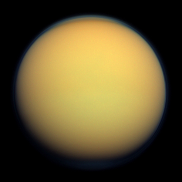 Titan's atmosphere makes Saturn's largest moon look like a fuzzy orange ball in this natural color view from the Cassini spacecraft. Titan's north polar hood is visible at the top of the image, and a faint blue haze also can be detected above the south pole at the bottom of this view. This view looks toward the anti-Saturn side of Titan (3,200 miles, or 5,150 kilometers across). North is up. Images taken using red, green and blue spectral filters were combined to create this natural color view. The images were obtained with the Cassini spacecraft wide-angle camera on Jan. 30, 2012 at a distance of approximately 119,000 miles (191,000 kilometers) from Titan. Image scale is 7 miles (11 kilometers) per pixel.